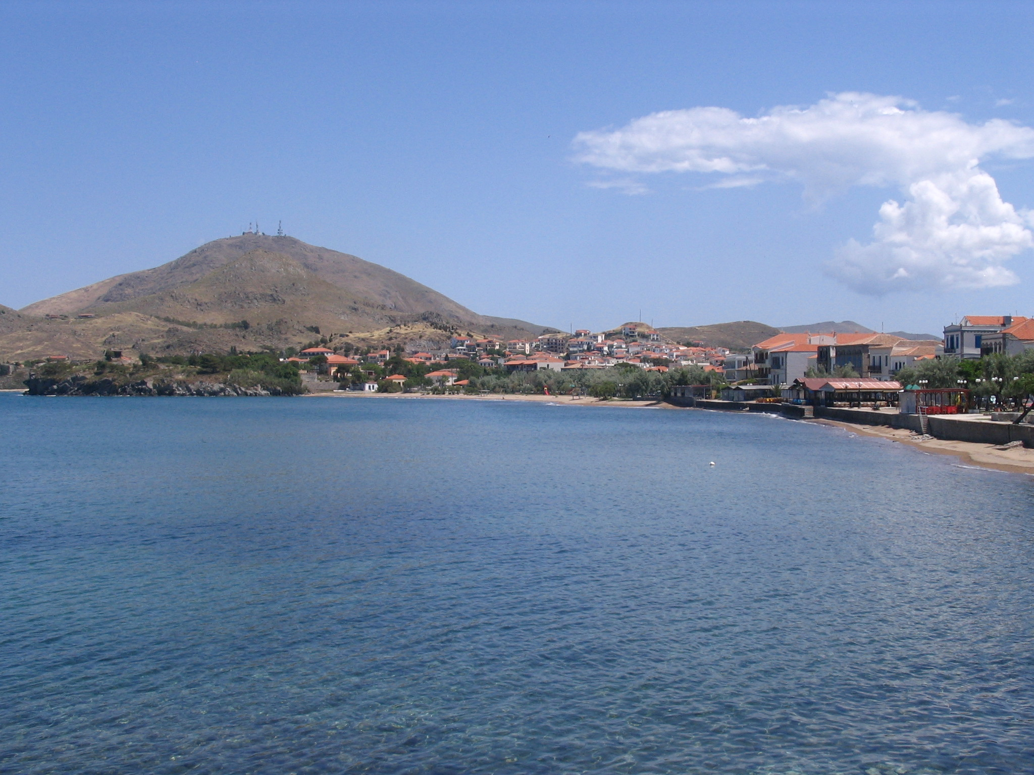 View of Myrina beach, Lemnos in Lesbos prefecture, Greece.